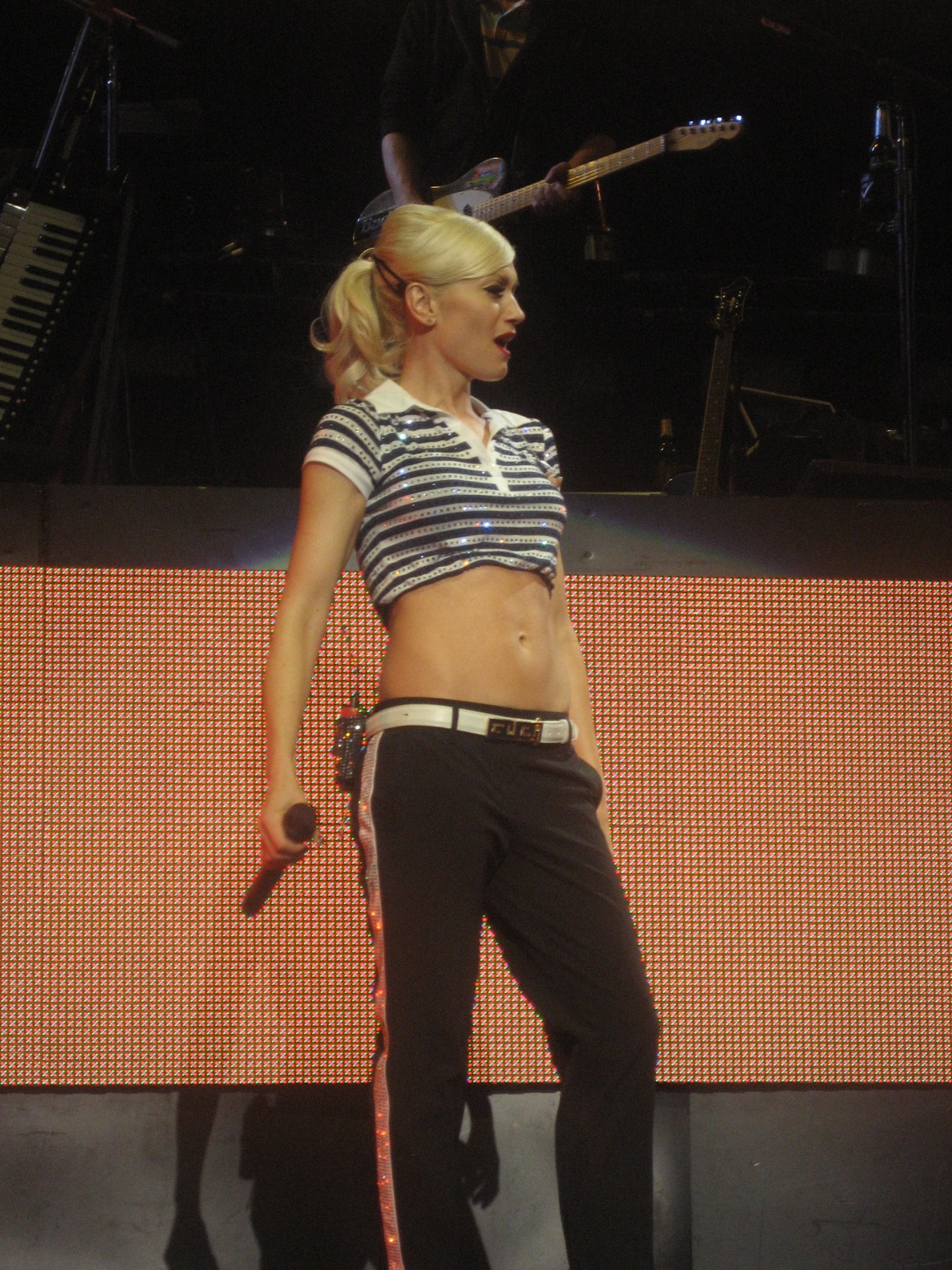 Gwen Stefani on stage.